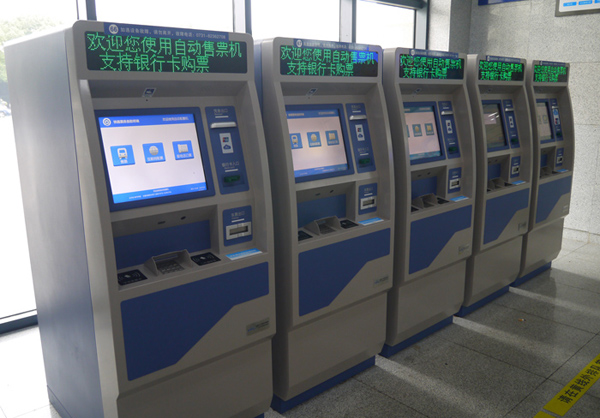 ticket machines